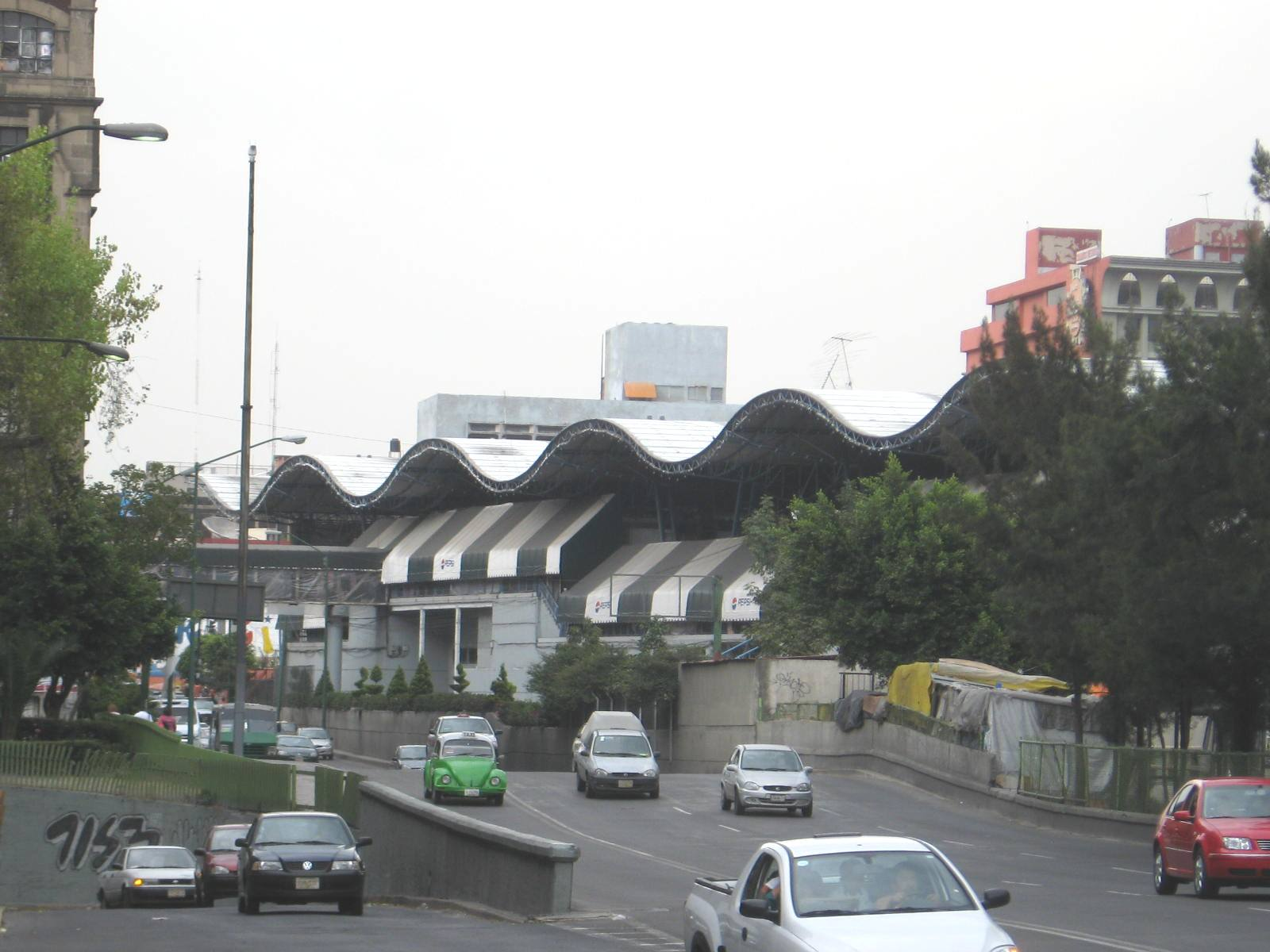 The Pino Suarez Market located near the Pino Suarez station in Mexico City